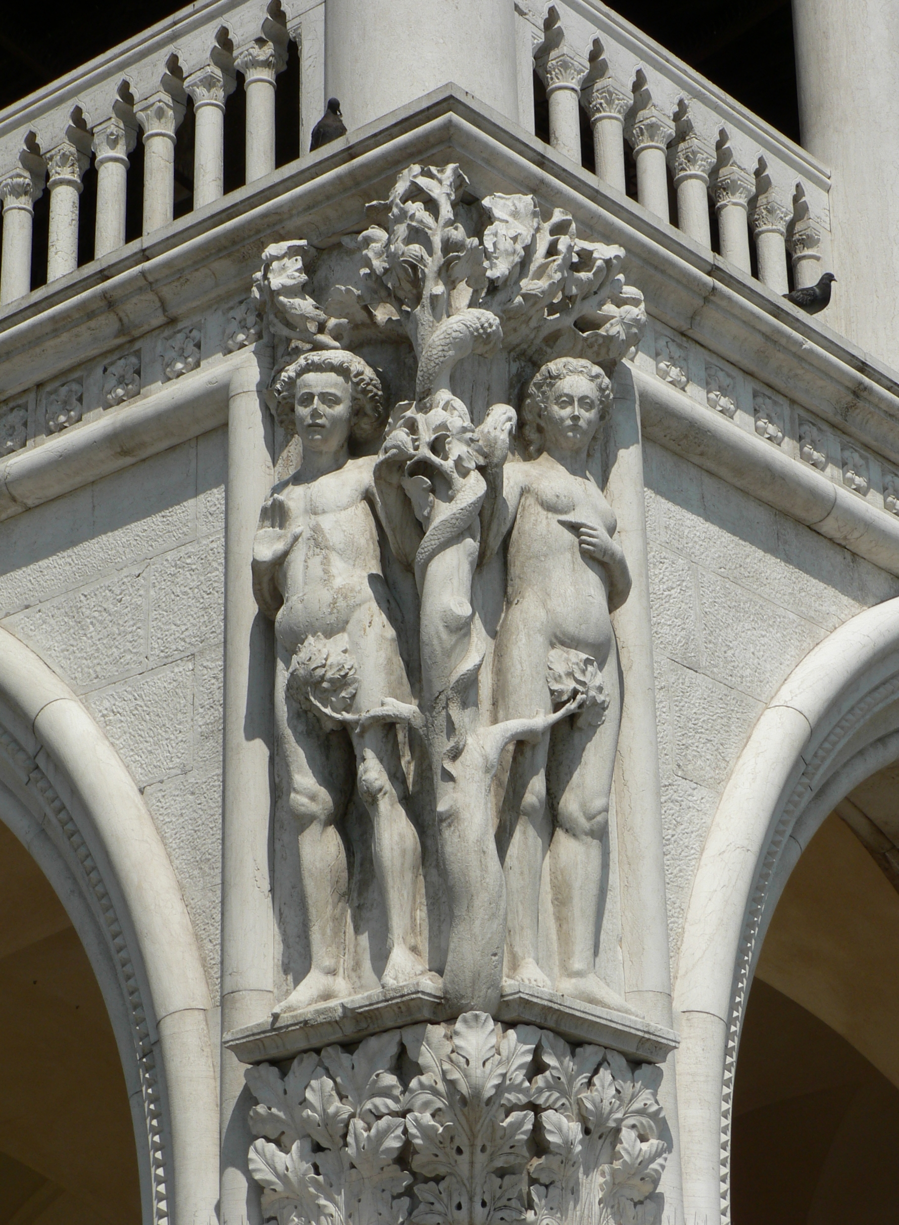 Palazzo Ducale in Venice: Corner relief of Adam and Eve (14th century).